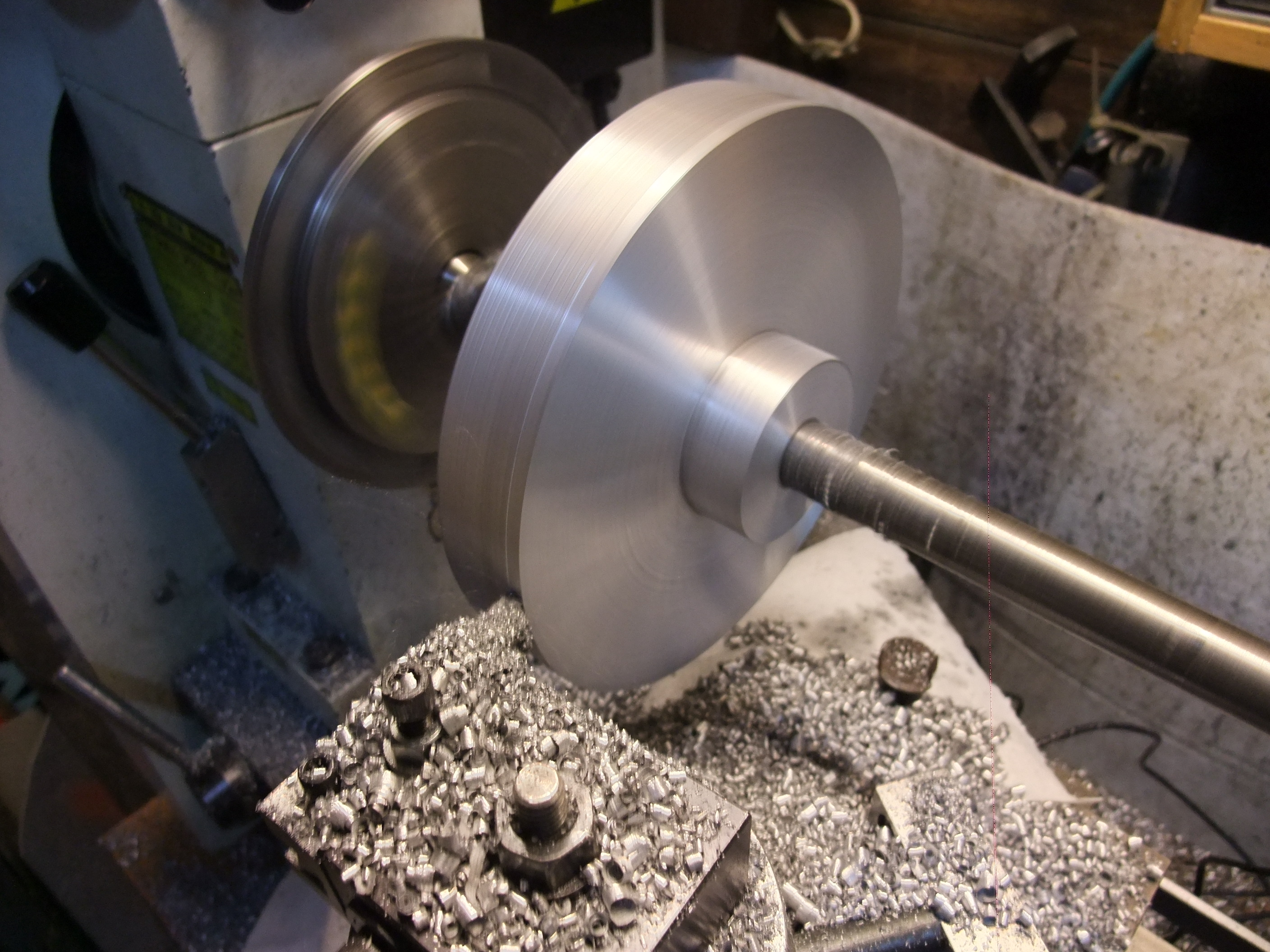 Example of using a mandrel to turn work between centers with a lathe.